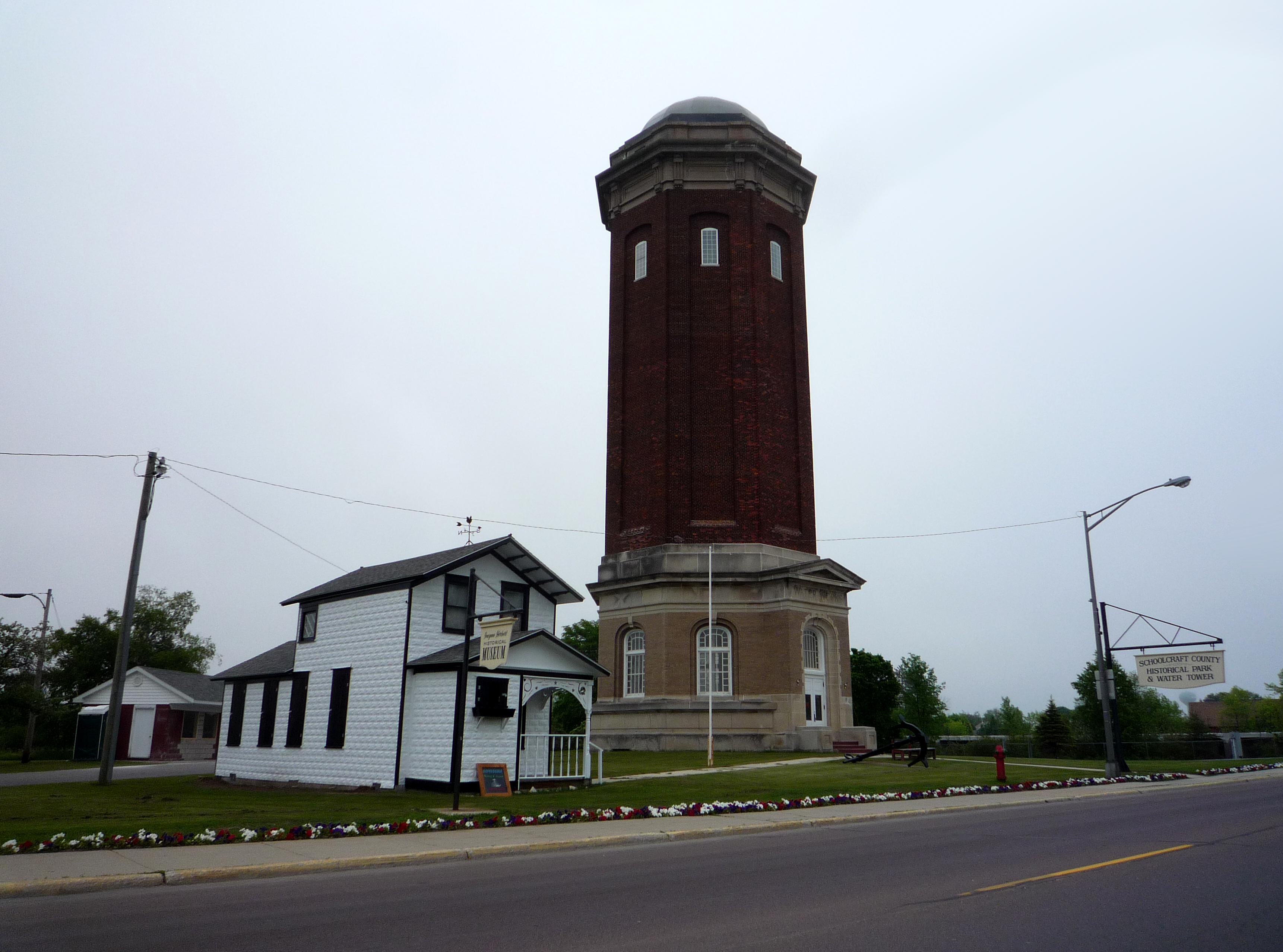 Water tower and Manistique Pumping Station (now the Schoolcraft County Museum), Manistique, Michigan, USA.